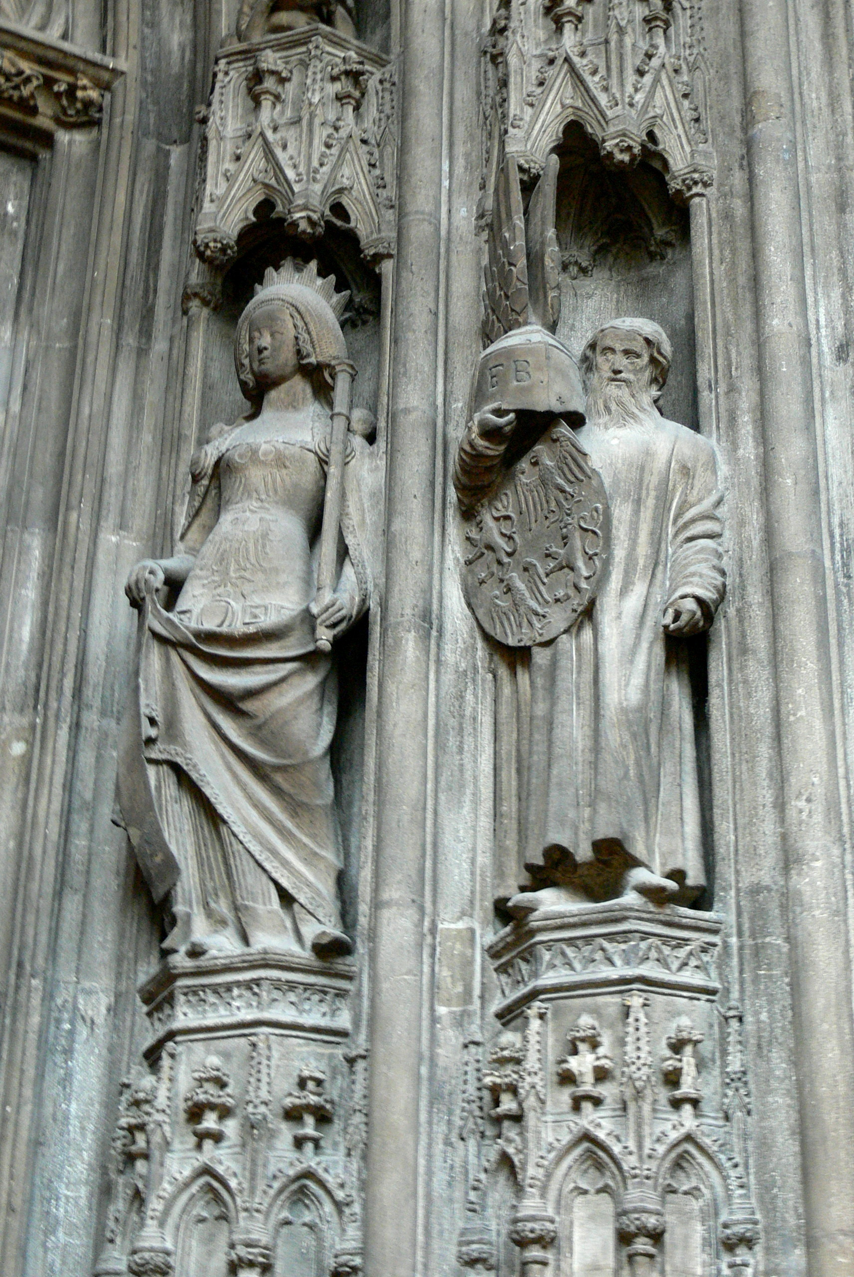 St. Stephen's Cathedral, Vienna. Bishop's gate: Statues of Catherine of Bohemia, wife of Rudolf IV, duke of Austria, and a servant carrying her coats of arms ( 14th century ).